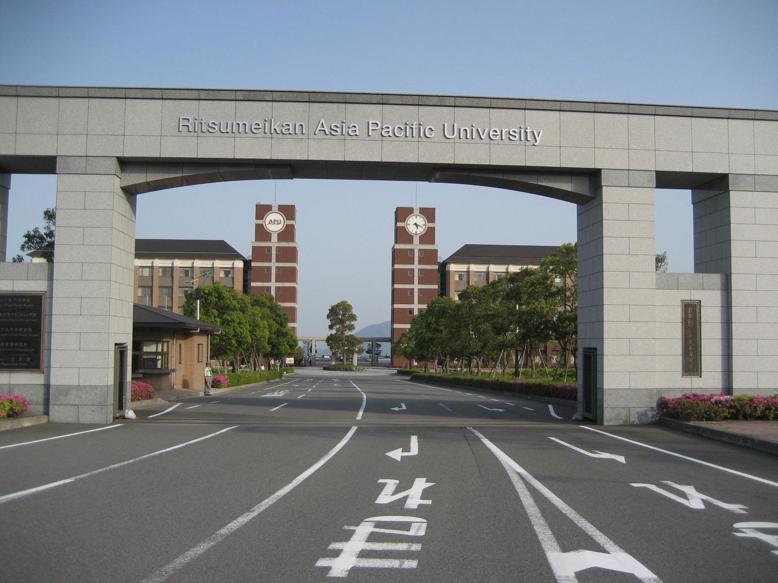 Ritsumeikan Asia Pacific University, OITA, Japan